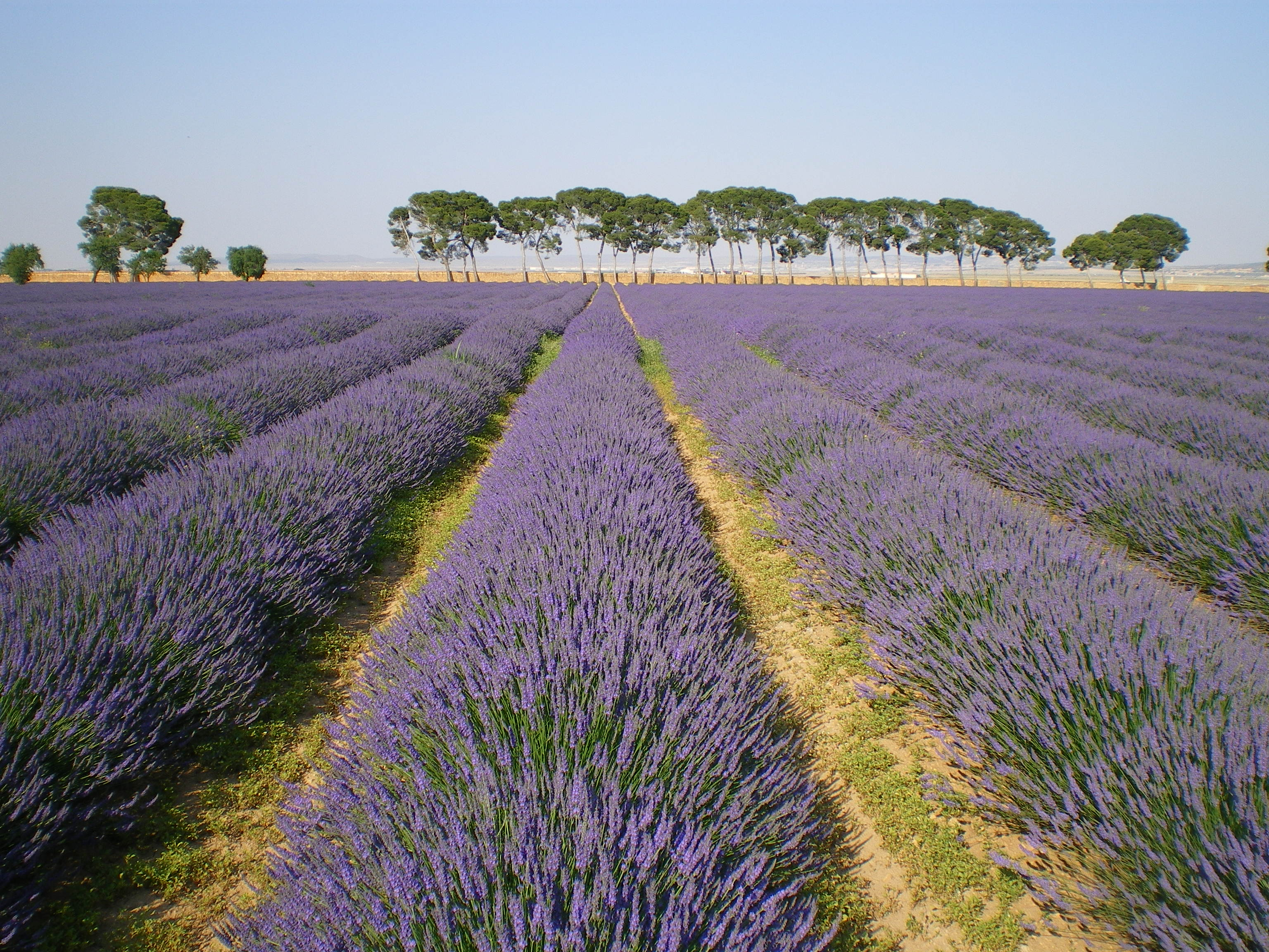 Panoramica Dehesa de Los Llanos